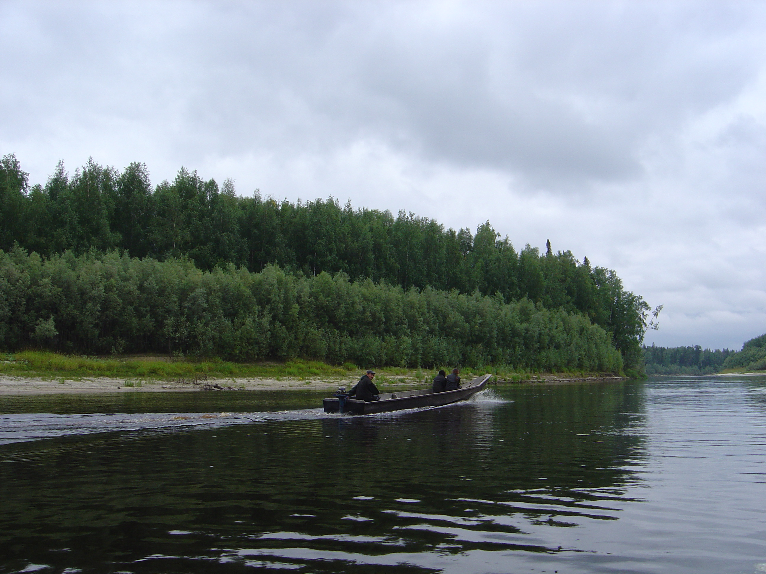 River Bolshoi Yugan in middle course